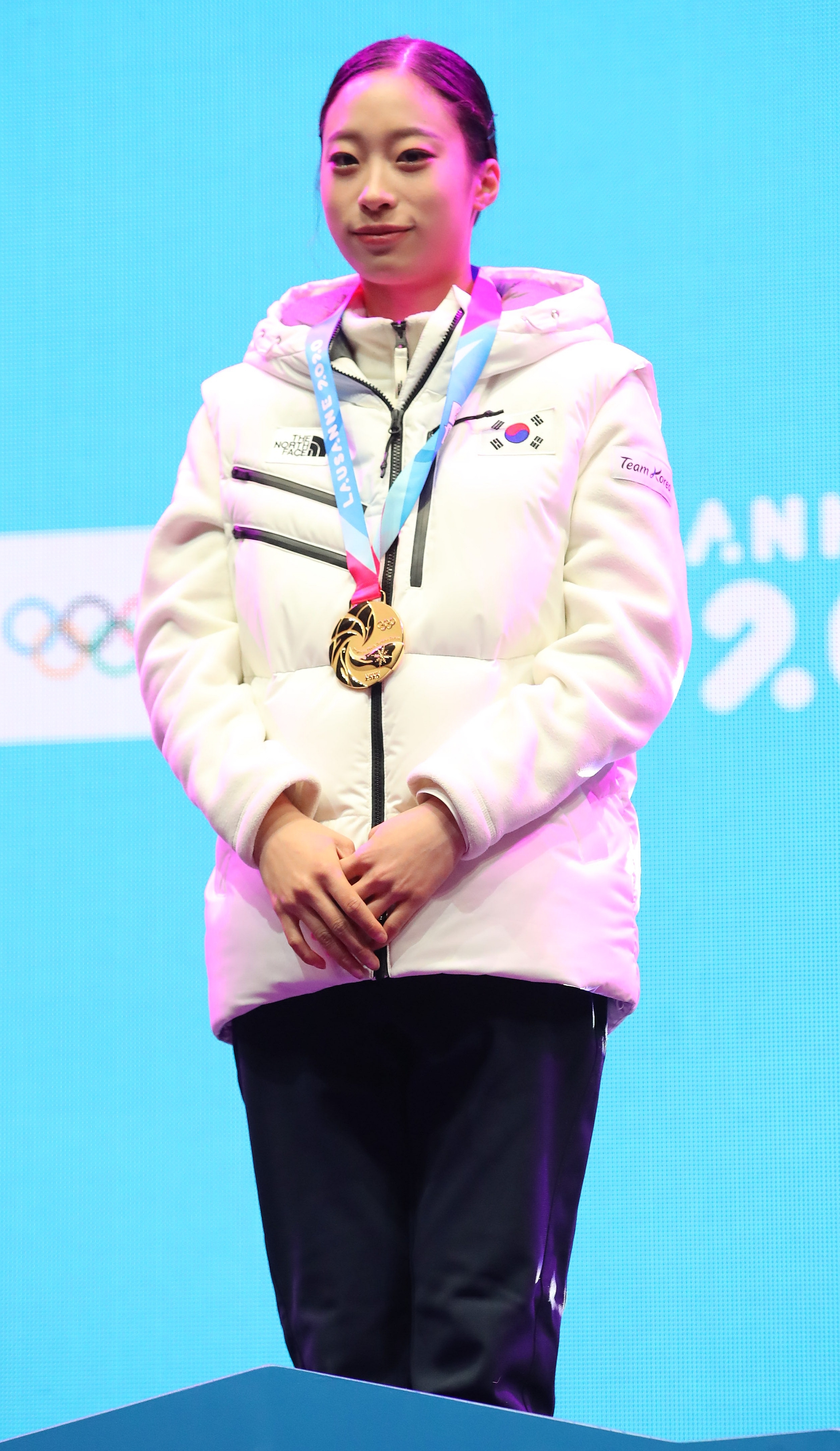 Medal ceremony of Figure skating – Women's Single Skating at the 2020 Winter Youth Olympics in Lausanne on 13 January 2020.